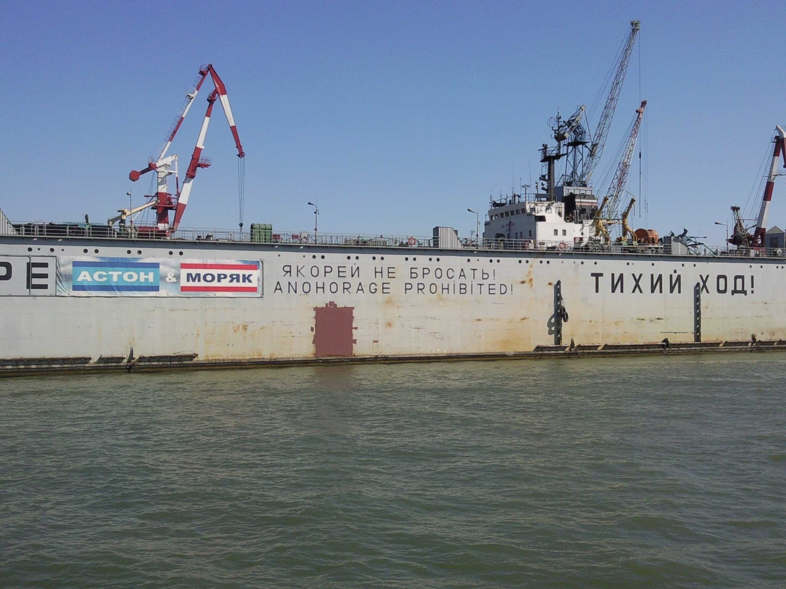 A spelling error in Rostov-on-Don port. Anohorage instead of Anchorage.